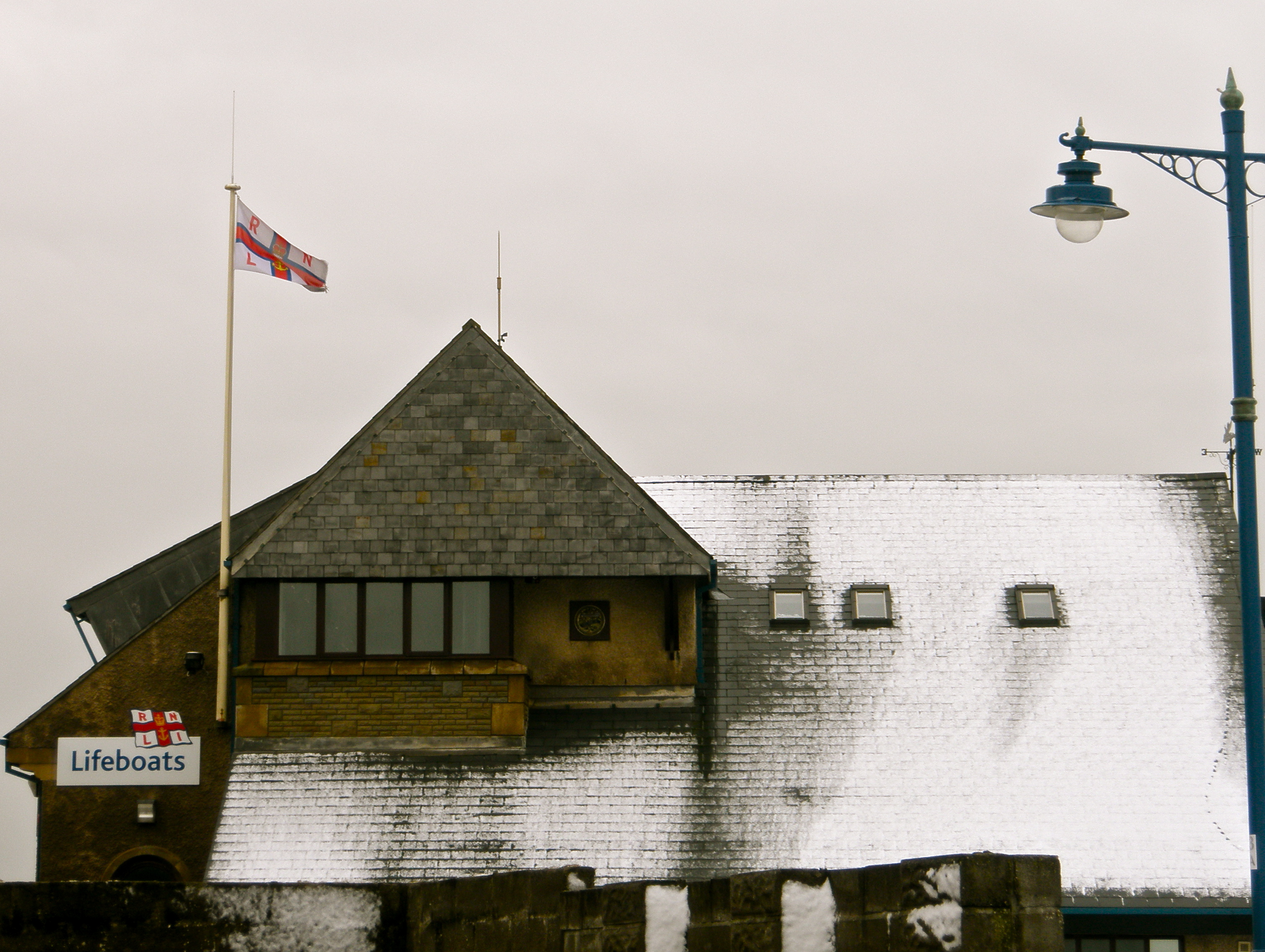 Porthcawl RNLI Station in Early Feb 2009